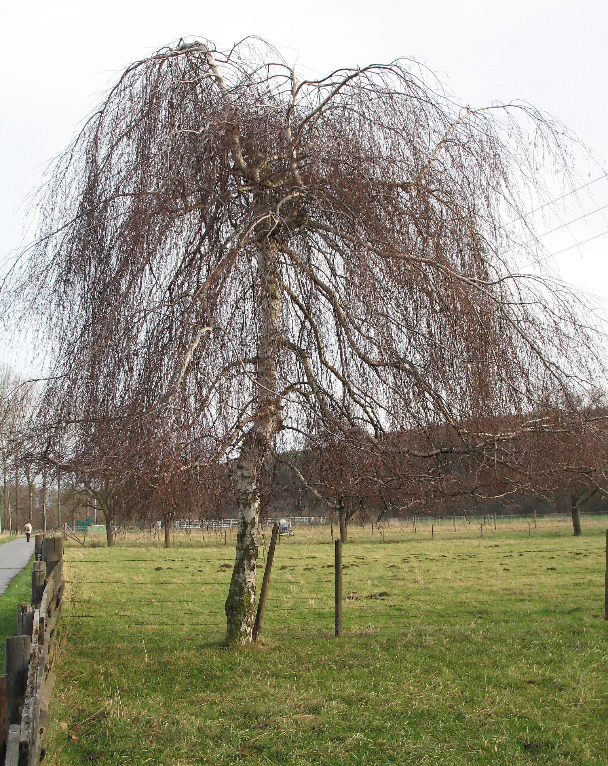 Silver Birch (Betula pendula 'Youngii') in winter (picture taken in Eifel region, Germany)